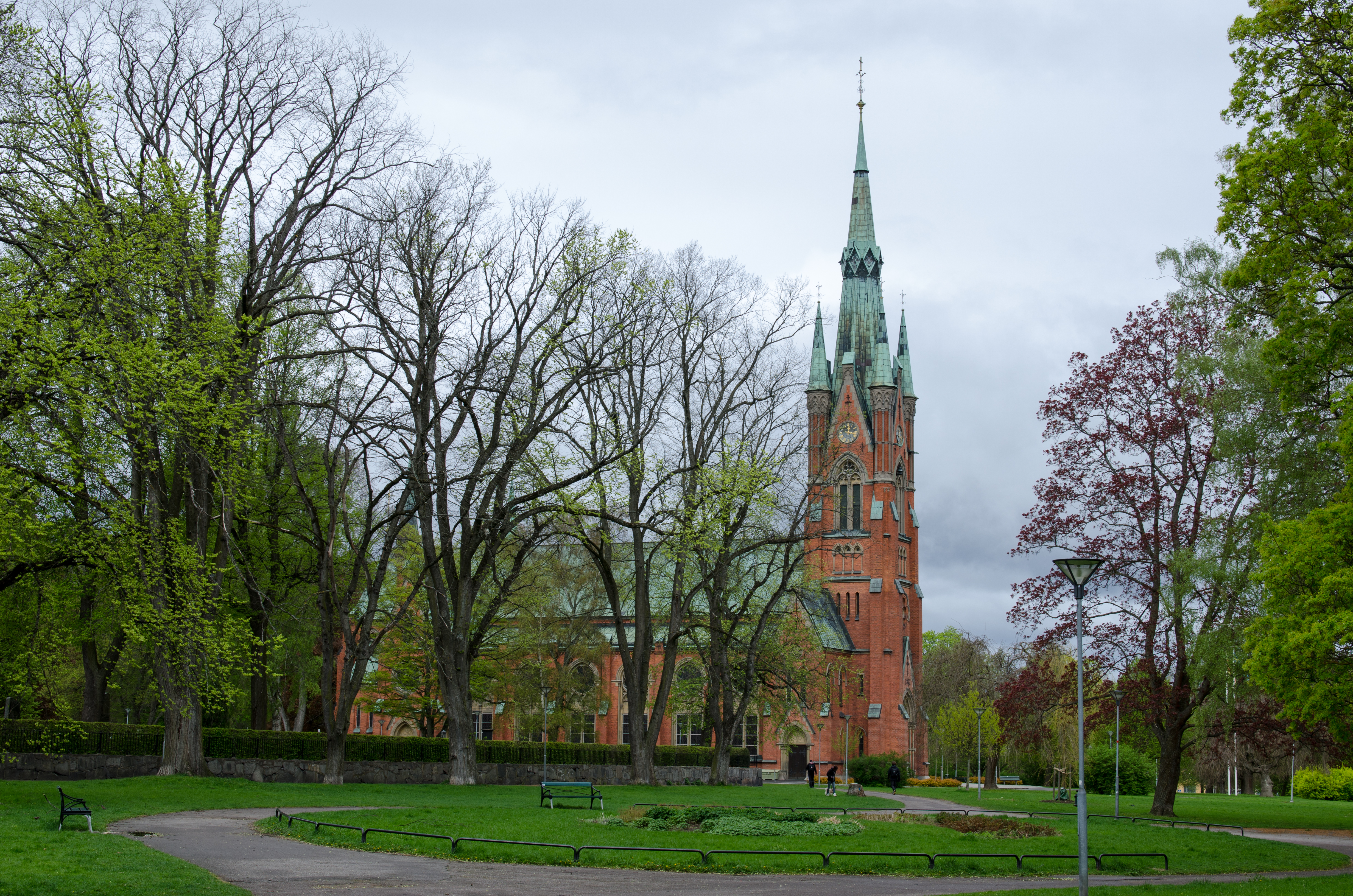 Church of Saint Matthew an Folkparken (the people's park"), Norrköping (Sweden).